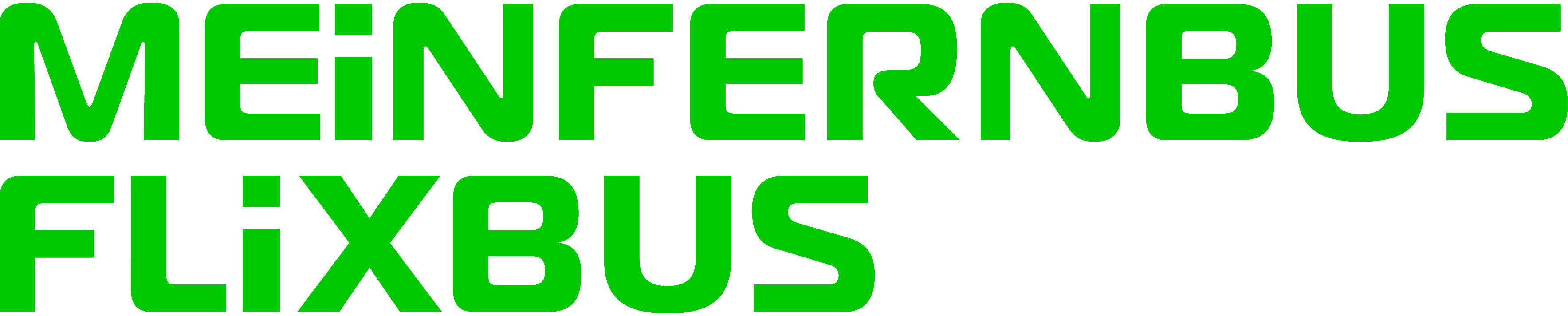 Logo of MeinFernbus FlixBus